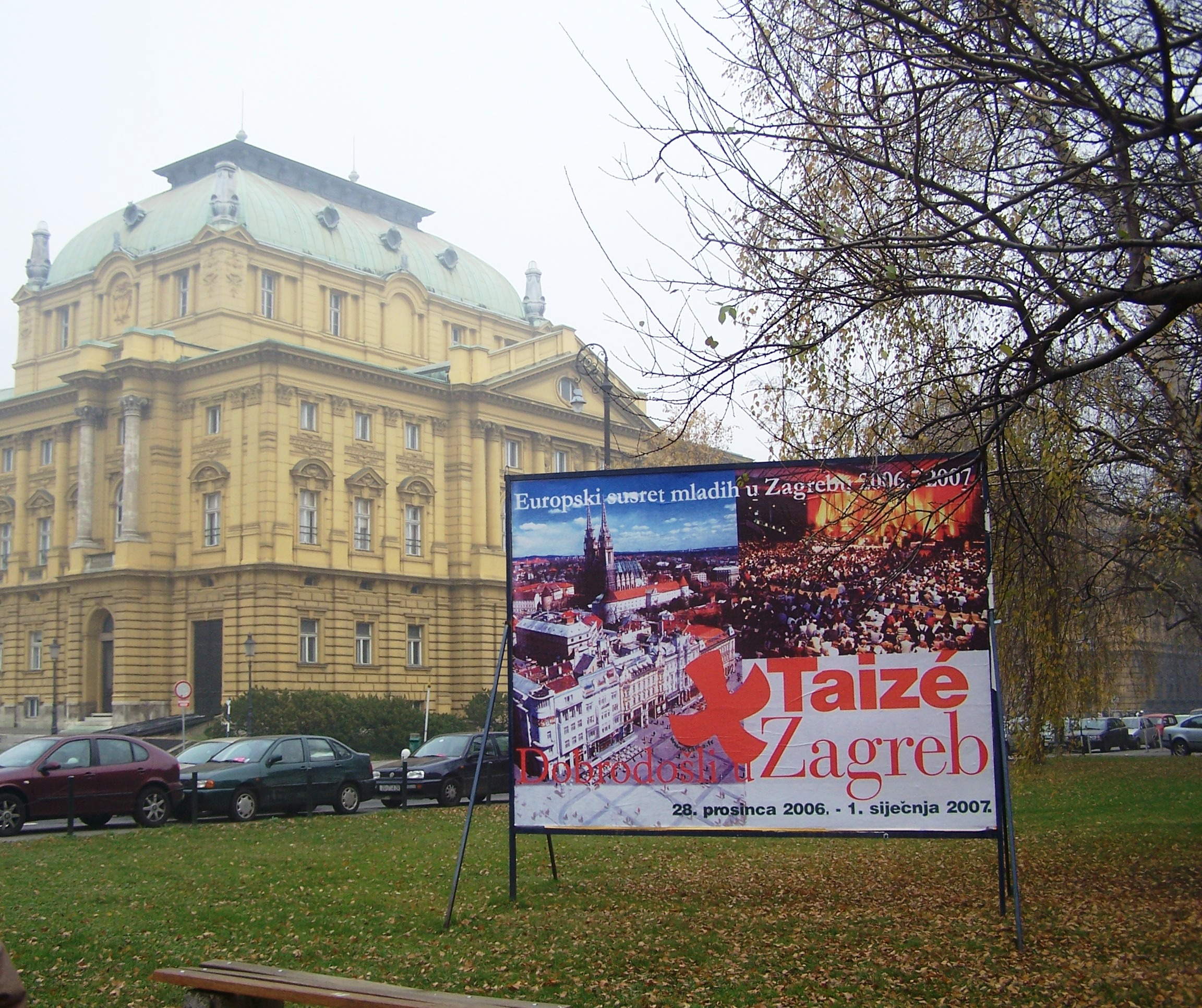 Werbeplakat für das Europäische Jugendtreffen in Zagreb, fotografiert neben dem kroatischen Nationaltheater in Zagreb